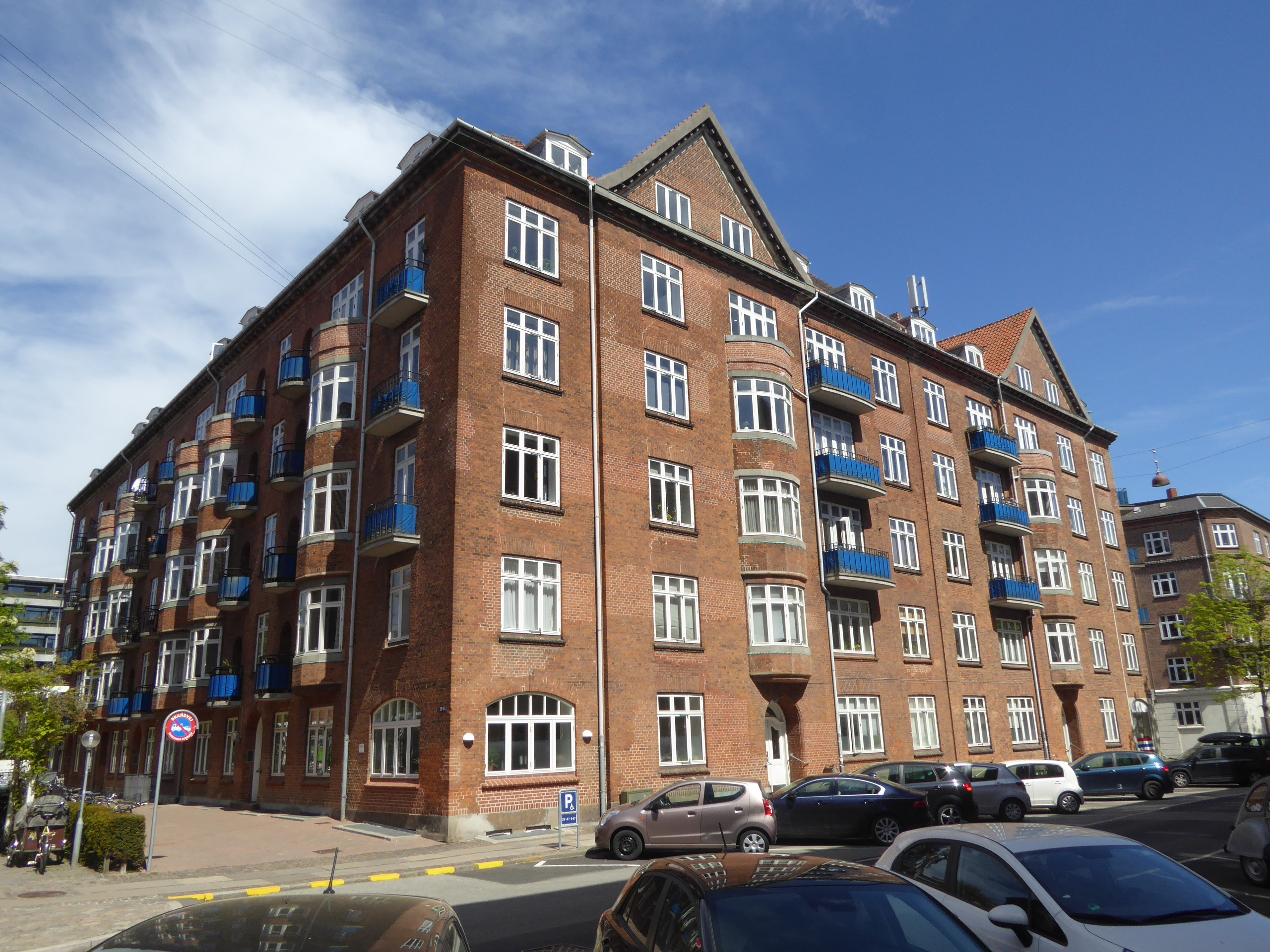 Apartment building at Koldinggade in Østerbro in Copenhagen